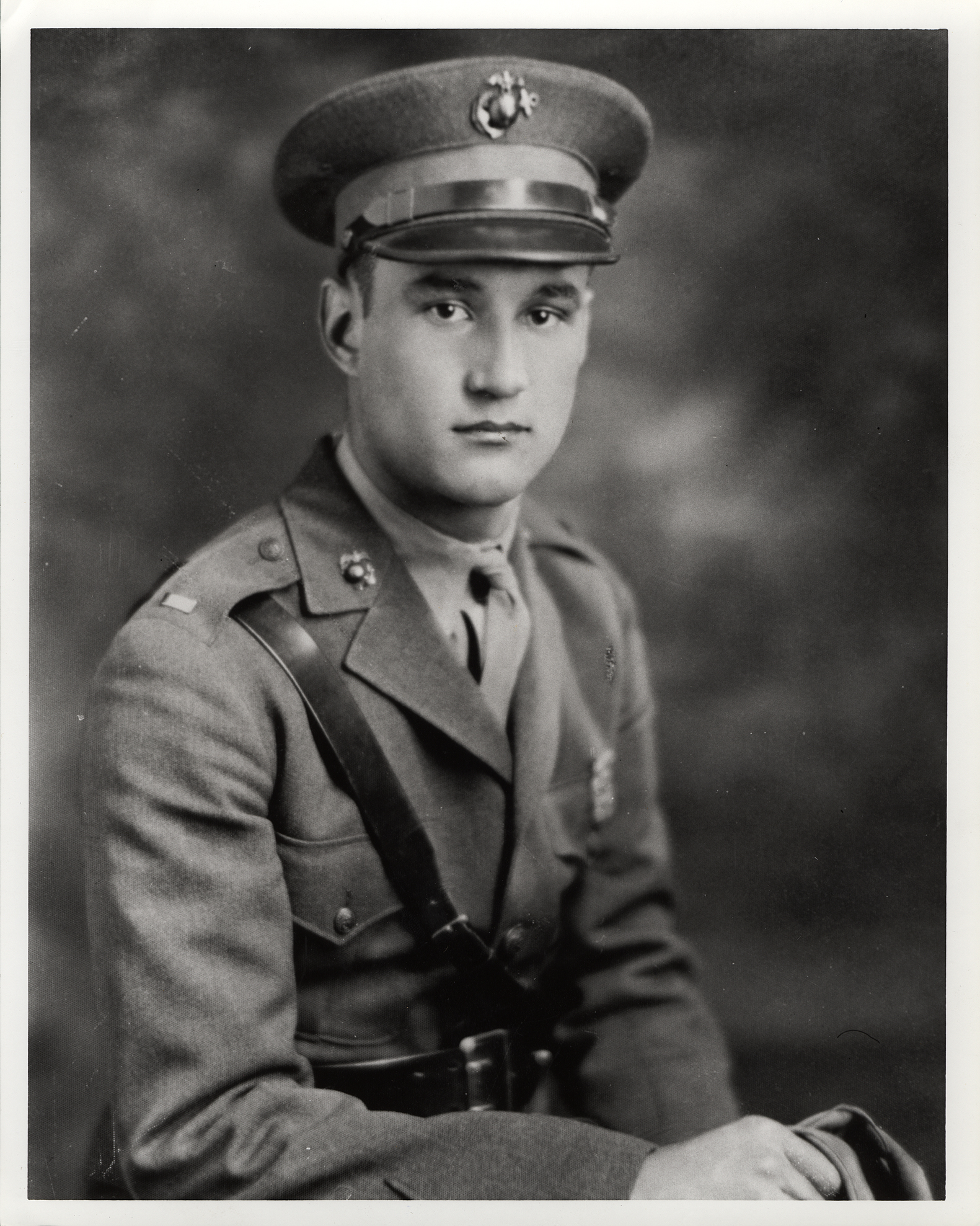 Harold W. Bauer, US Marine Corps aviator in WWII - awarded the Medal of Honor for his heroic actions during the battle for the Solomon Islands; image from official Marine Corps biography at